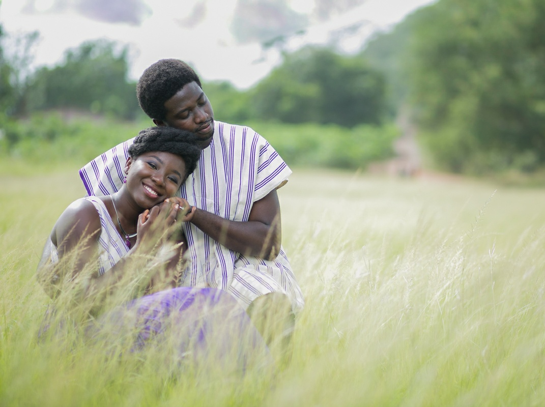 The love of a man and a woman in the tall savanna grass. Their clothes are a modern adaptation of traditional Northern Ghana clothes. This is an image of Cultural Fashion or Adornment from Ghana